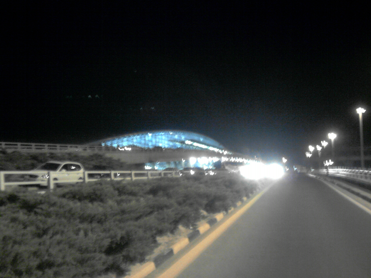 Imam Khomeini Airport Tehran at night